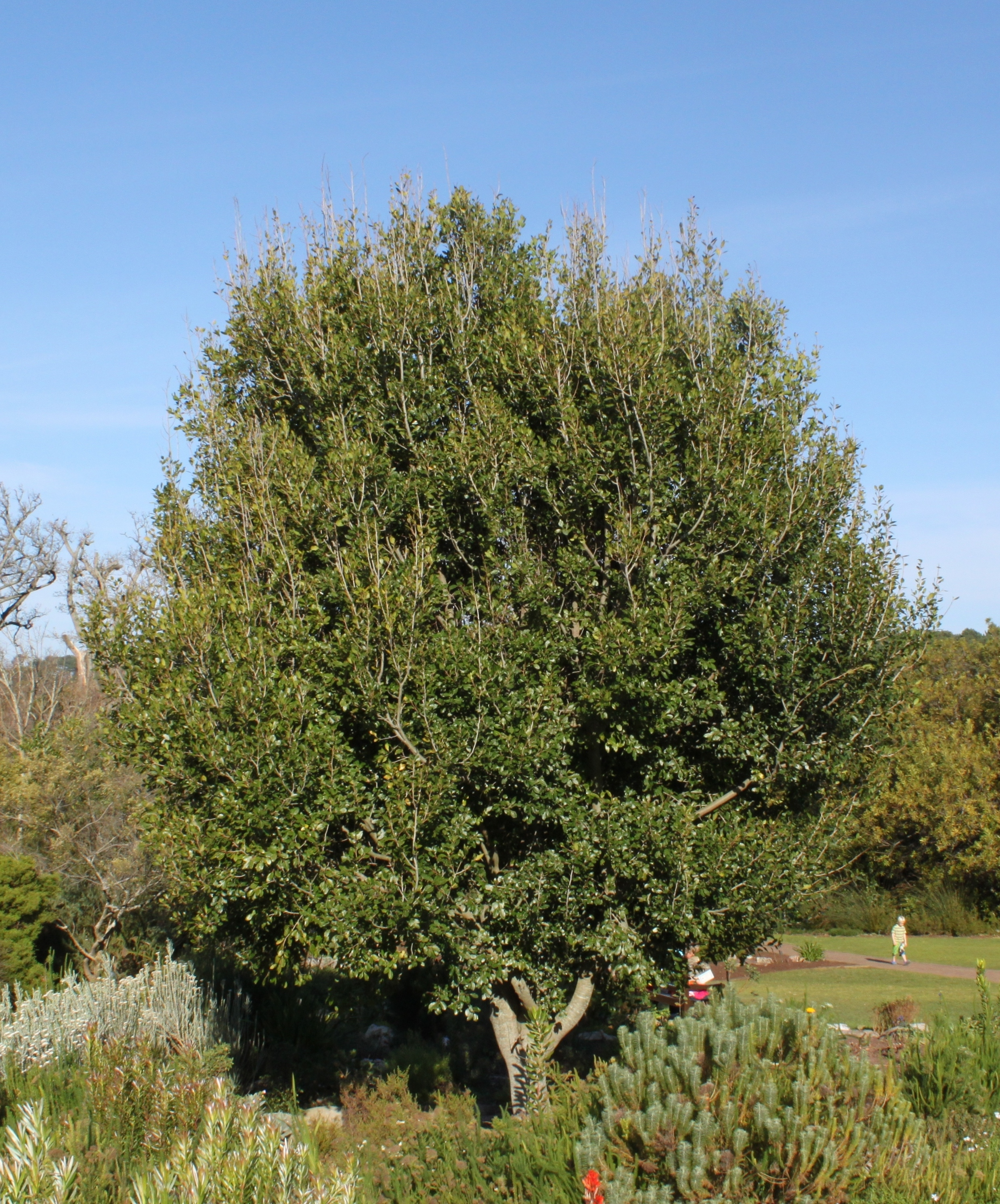 Apodytes dimidiata. Hard pear tree. Cape Town.